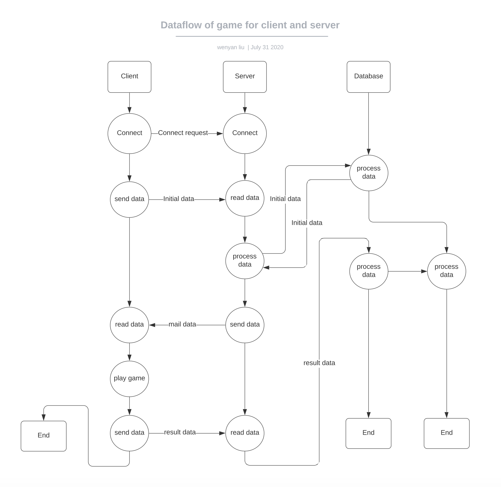 it is a data flow design for a game product doc.